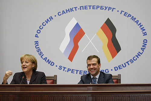 ST PETERSBURG. At the joint press-conference following Russian-German intergovernmental consultations. With Federal Chancellor of Germany Angela Merkel.